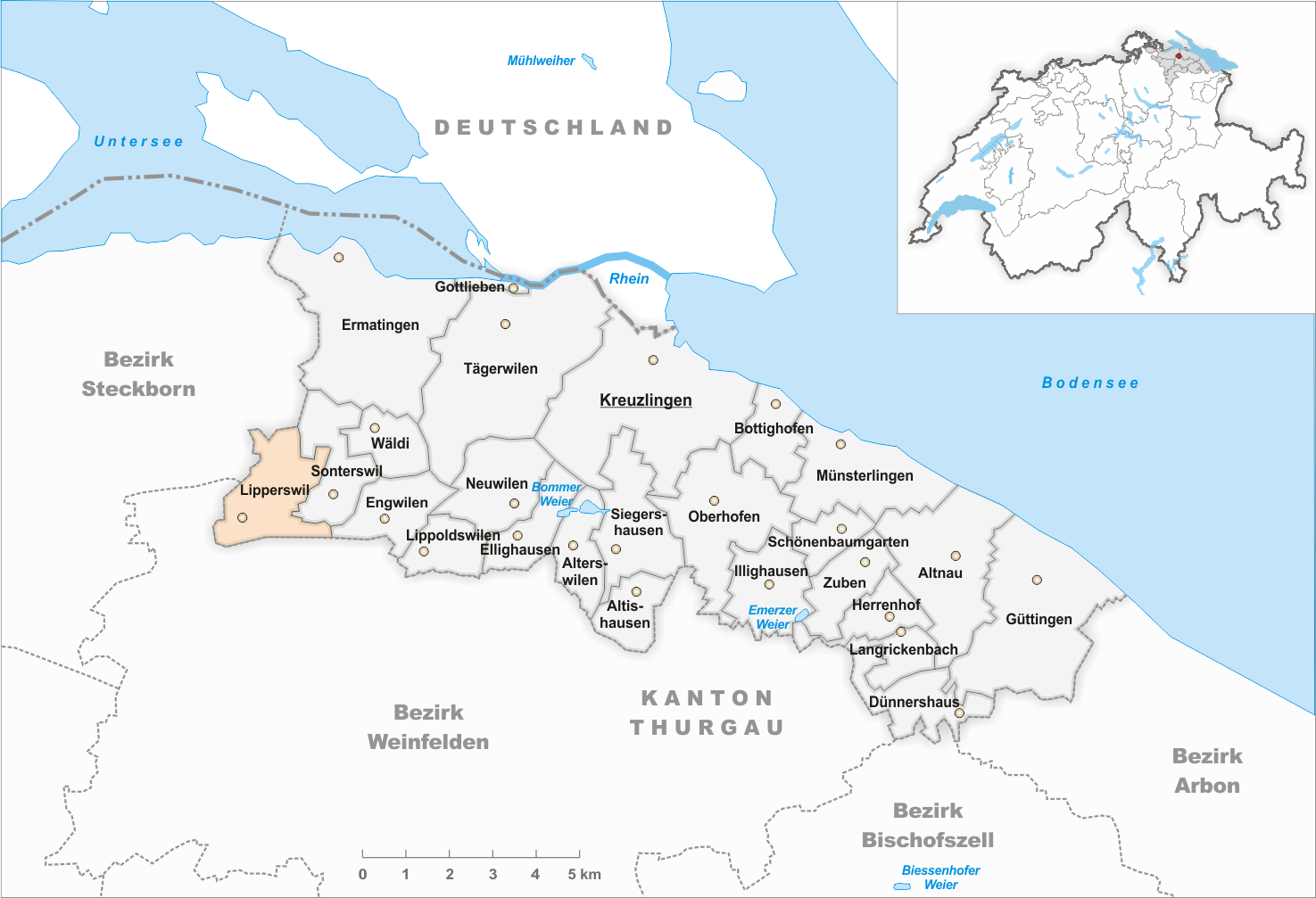 Municipality Lipperswil